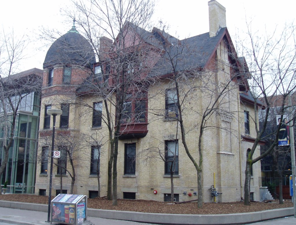 O'Keefe House at Ryerson University, Toronto, Ontario, Canada.